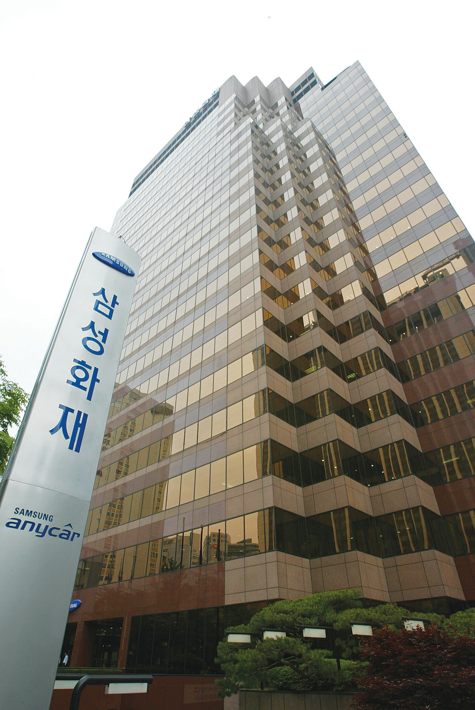 This is an image of Samsung Fire & Marine Insurance HQ